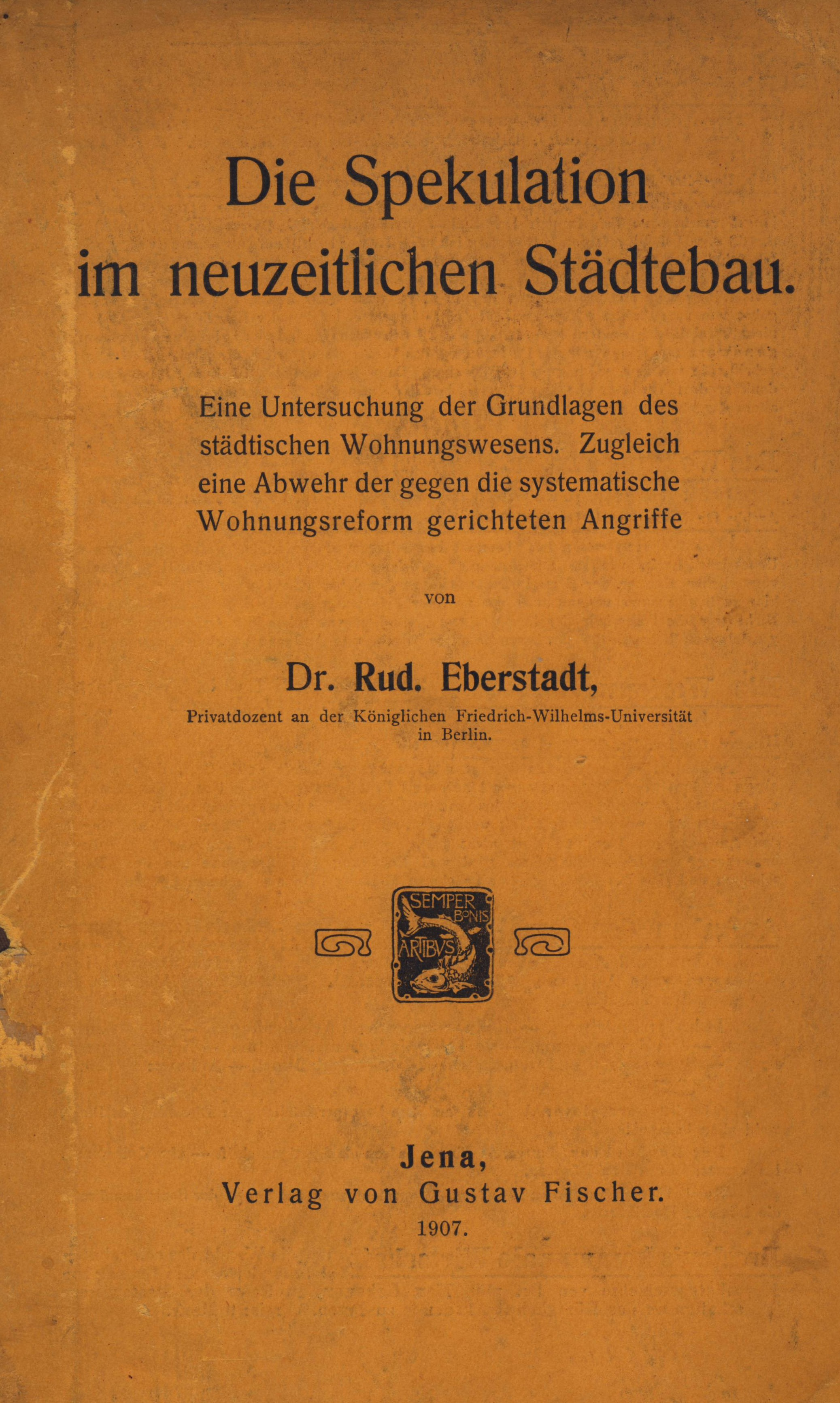 Cover: Rudolf Eberstadt, Die Spekulation im neuzeitlichen Städtebau. Jena 1907